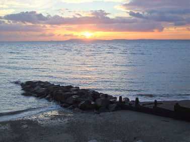 Picture of sunset taken from Selsey Bill with the Isle of Wight on the horizon.